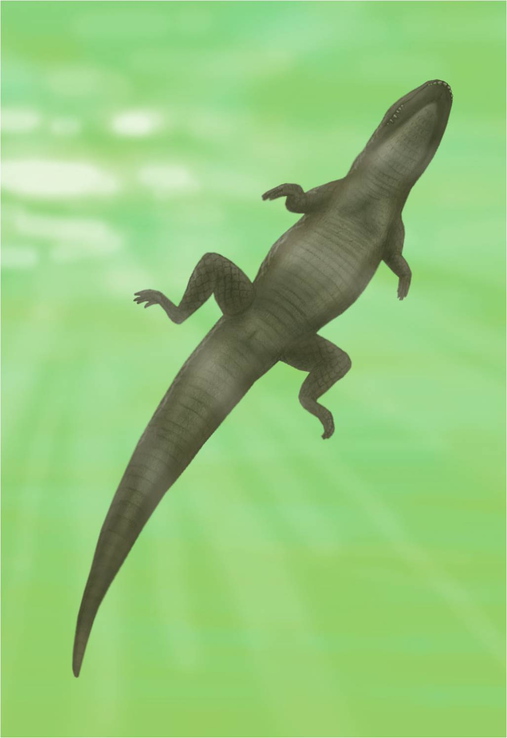 Life restoration of Allognathosuchus gracilis.